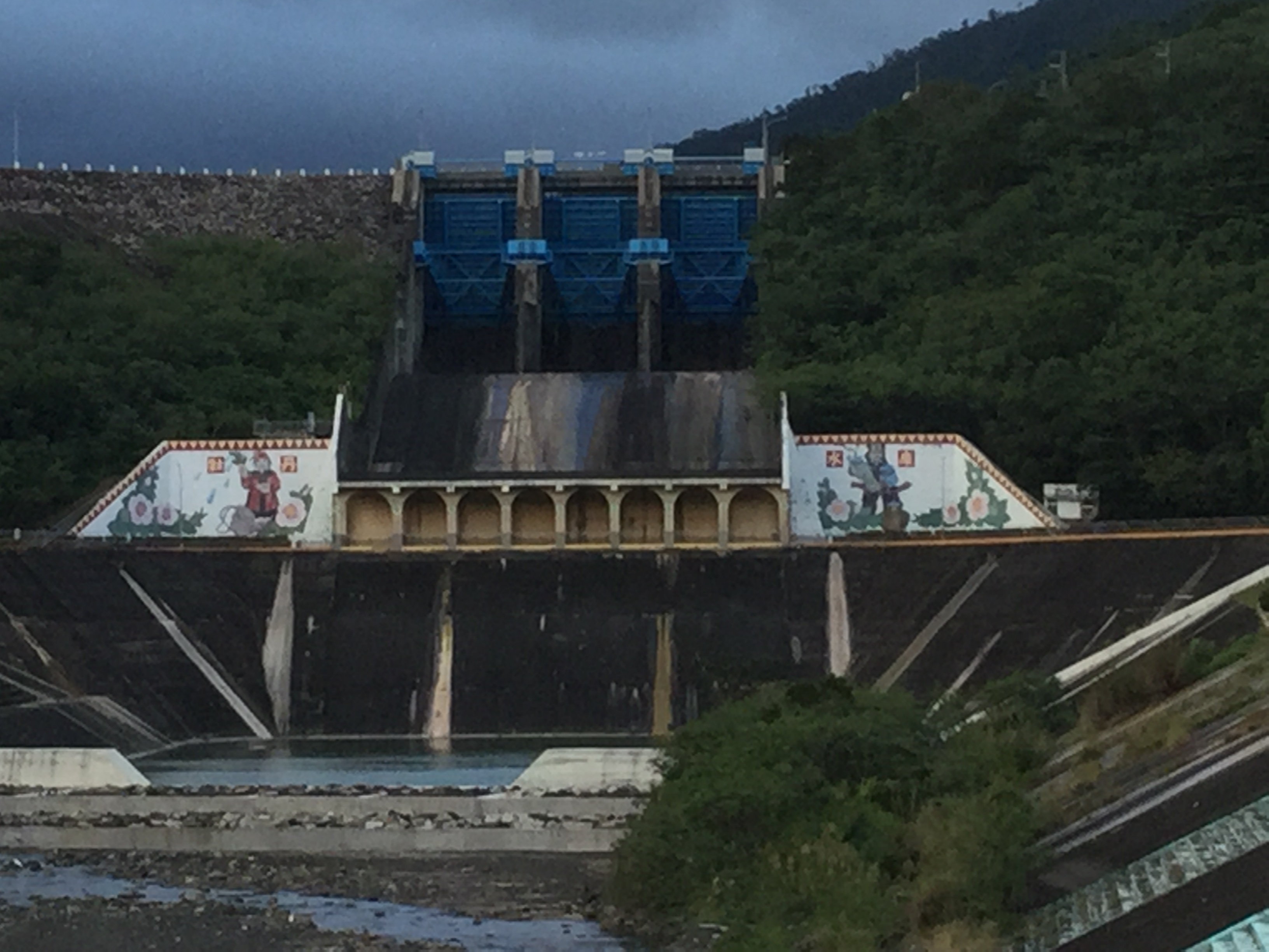 Mudan Dam